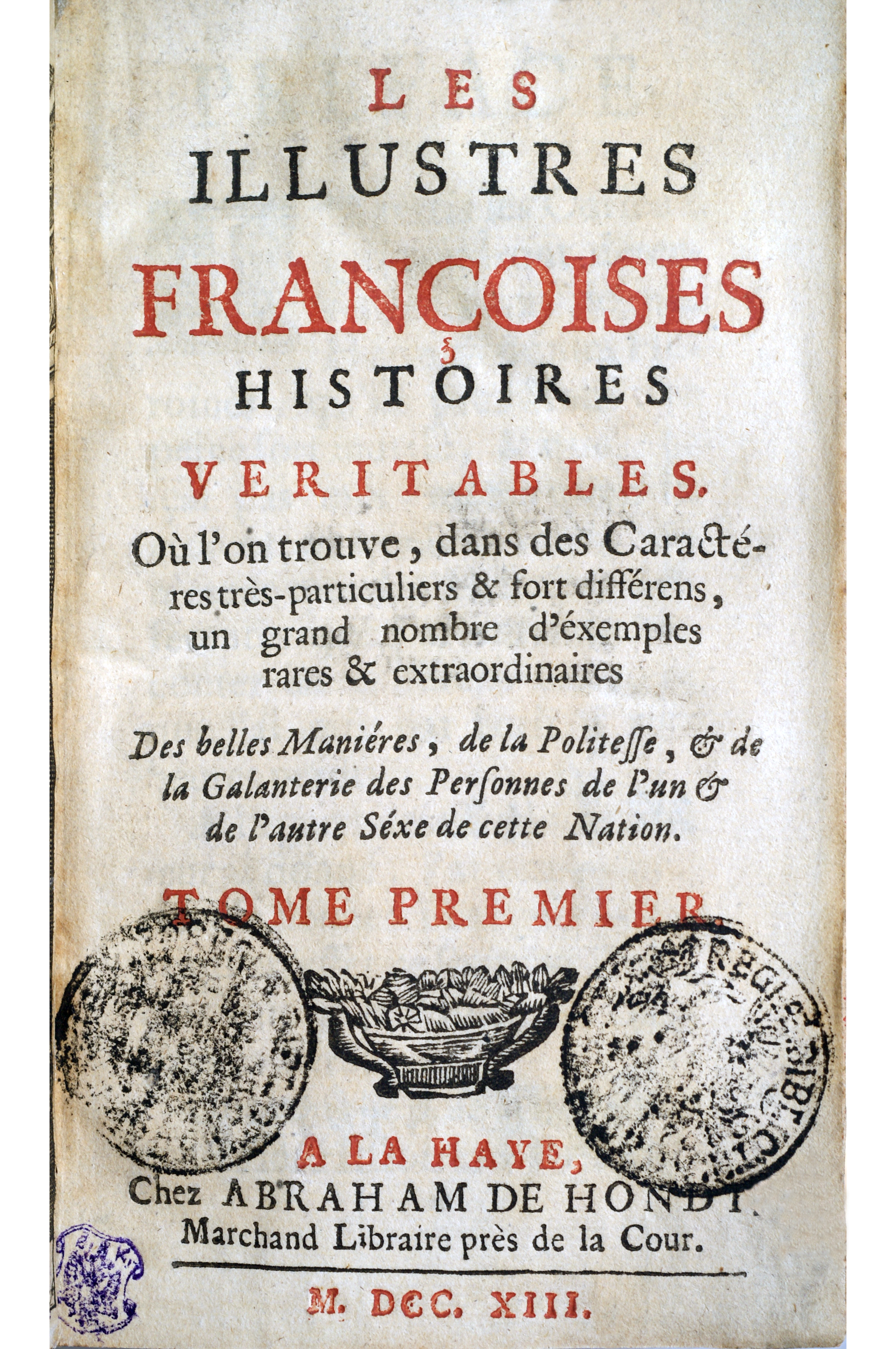 Robert Challe, Les Illustres françaises, illustration